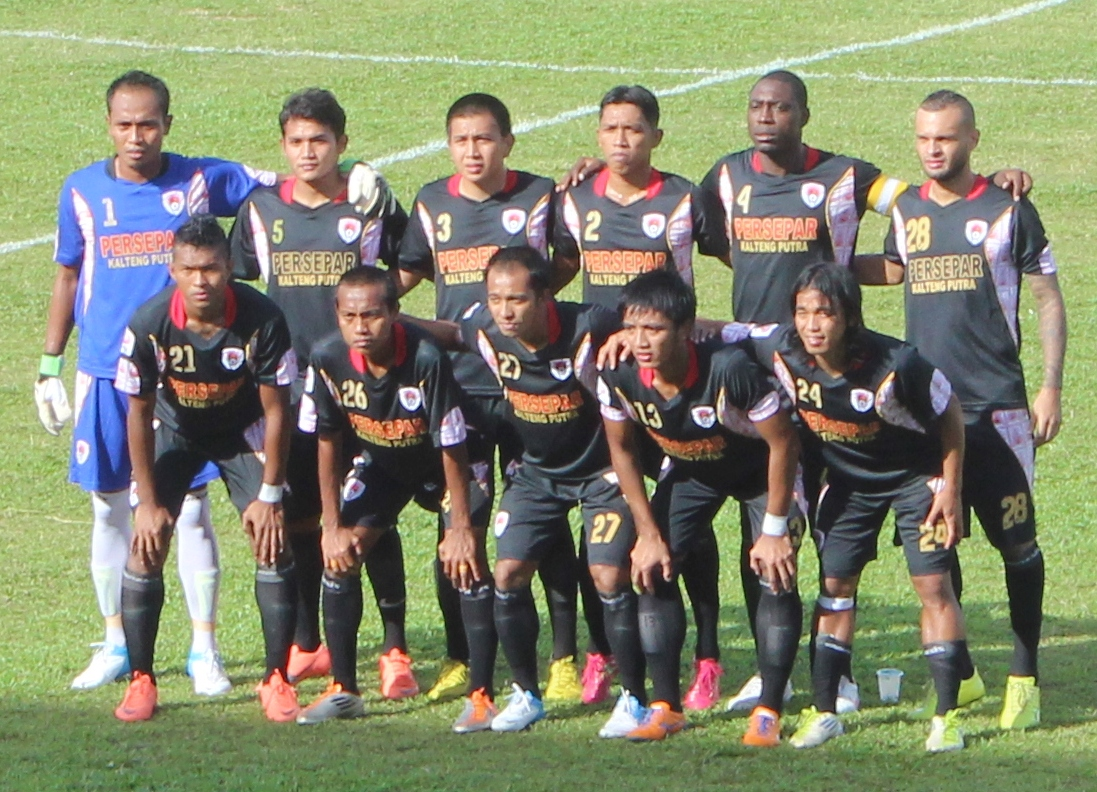 Persepar Palangkaraya squad vs Semen Padang in Agus Salim Stadium, Padang, 3 July 2013.